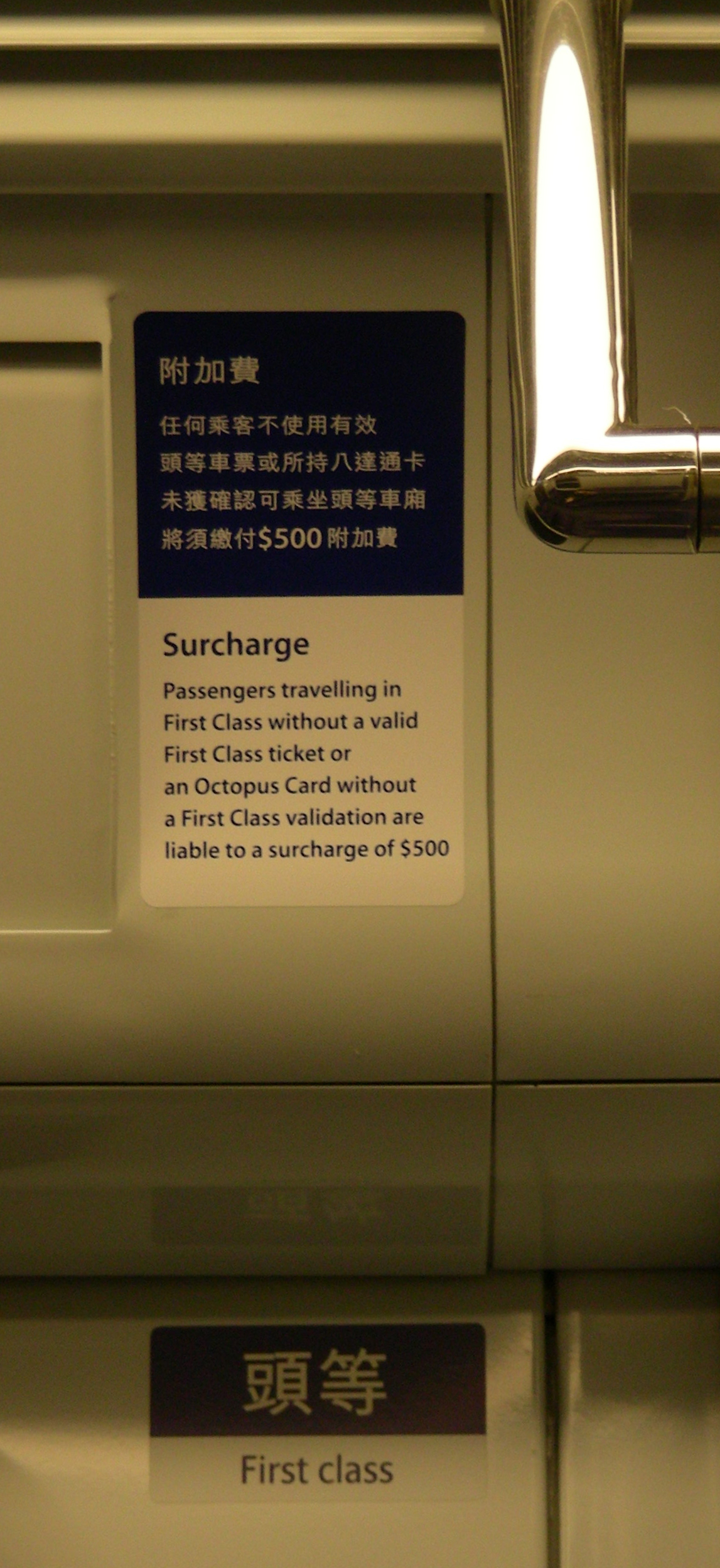 KCR First-class compartment subcharge